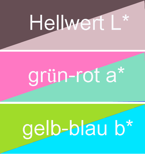 Colors changing in Brightness-Value (L*)- green/red (a*) - yellow/blue (b*) - L*a*b*-Modell